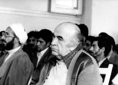 Hoveida